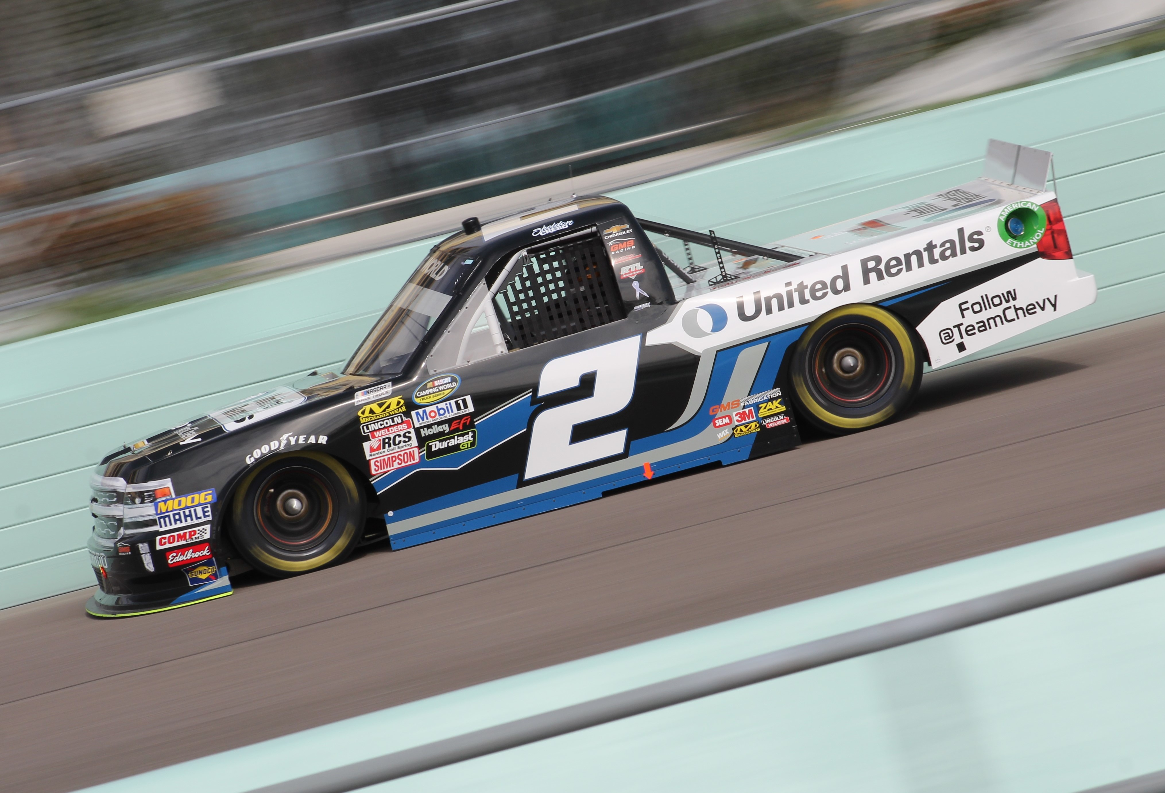 Sheldon Creed's No. 2 United Rentals Chevrolet at Homestead–Miami Speedway in 2018